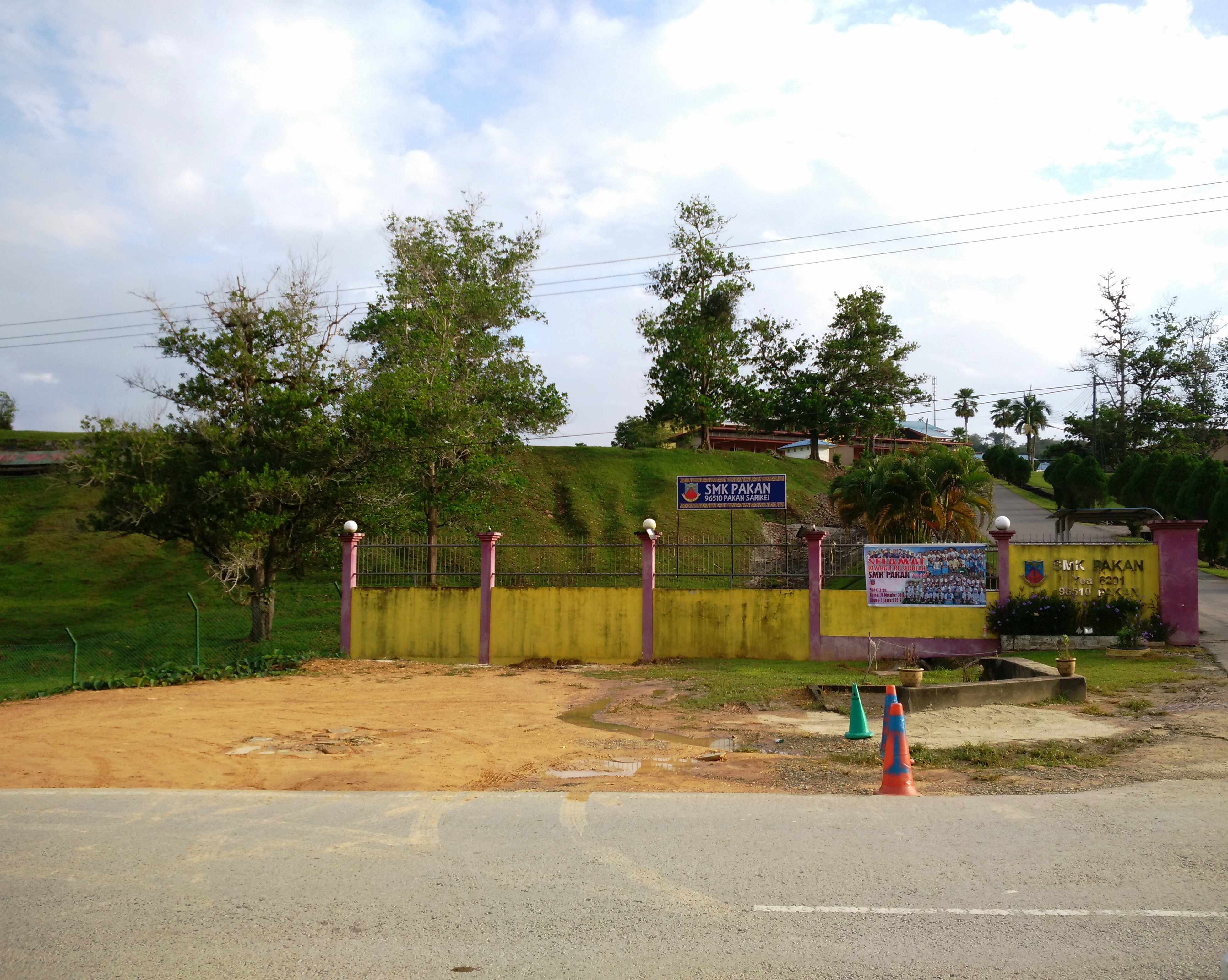 SMK Pakan front gate